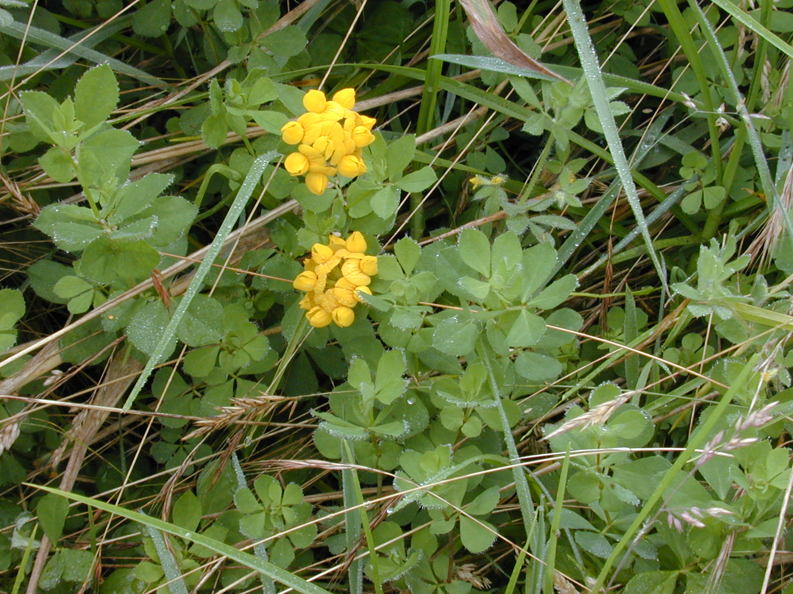 Lotus uliginosus (habit). Location: Maui, Polipoli